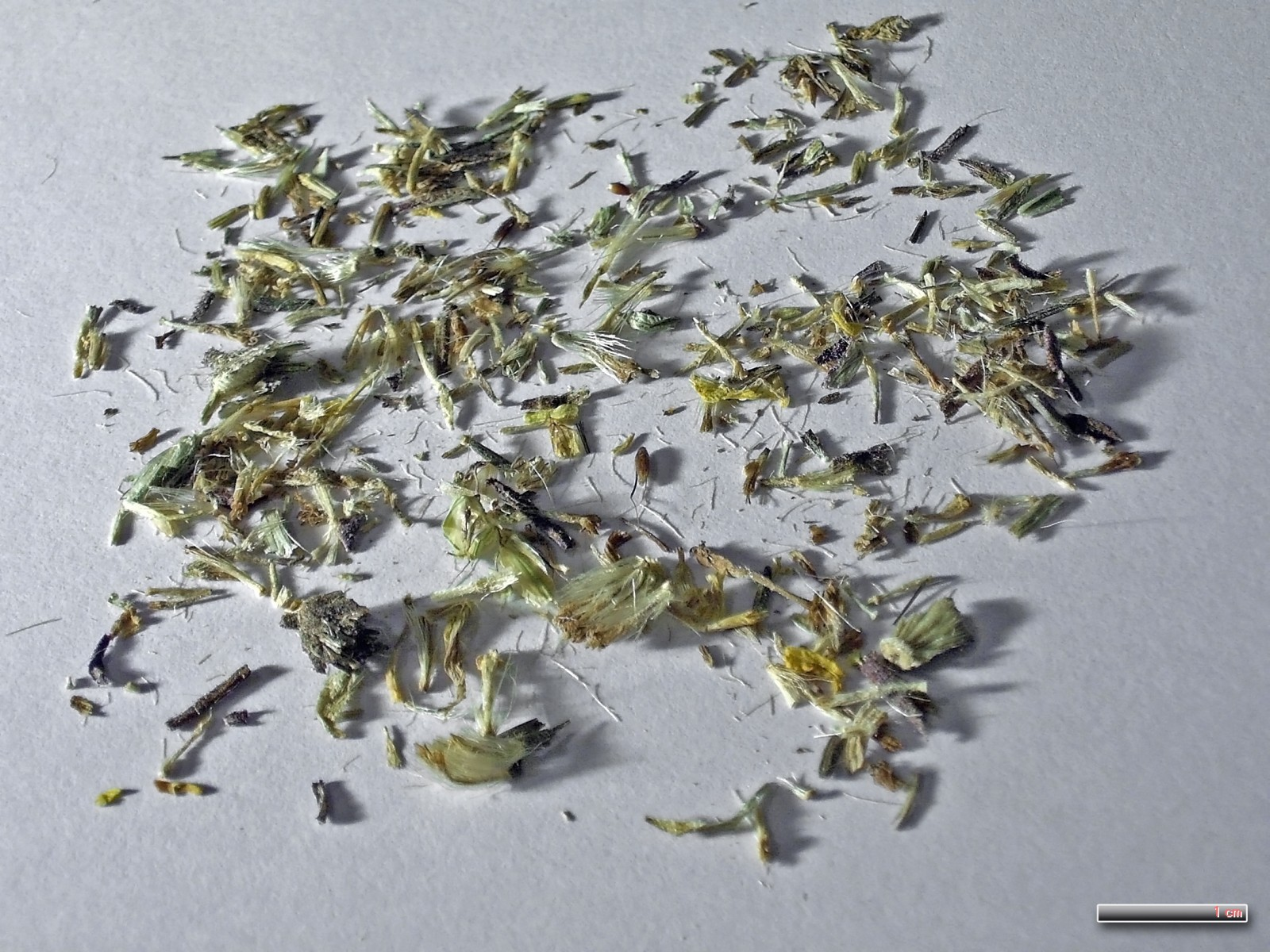 dried Arnica montana, known commonly as leopard's bane, wolf's bane, mountain tobacco and mountain arnica; Flower